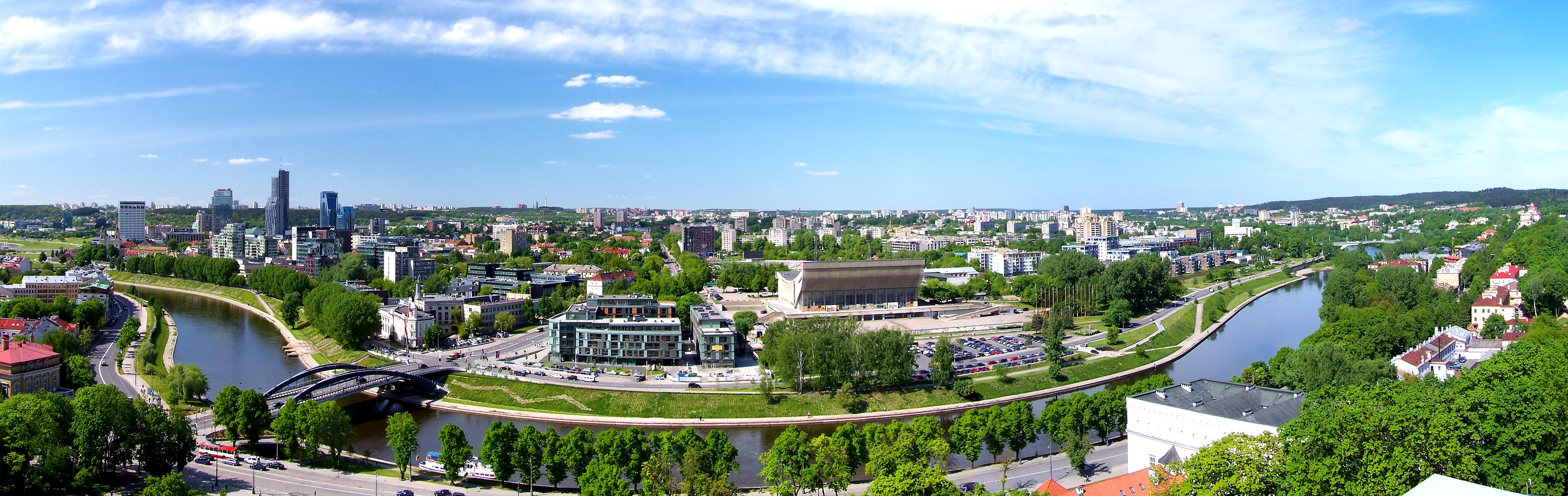 Panorama of Vilnius uptown (Lithuania).